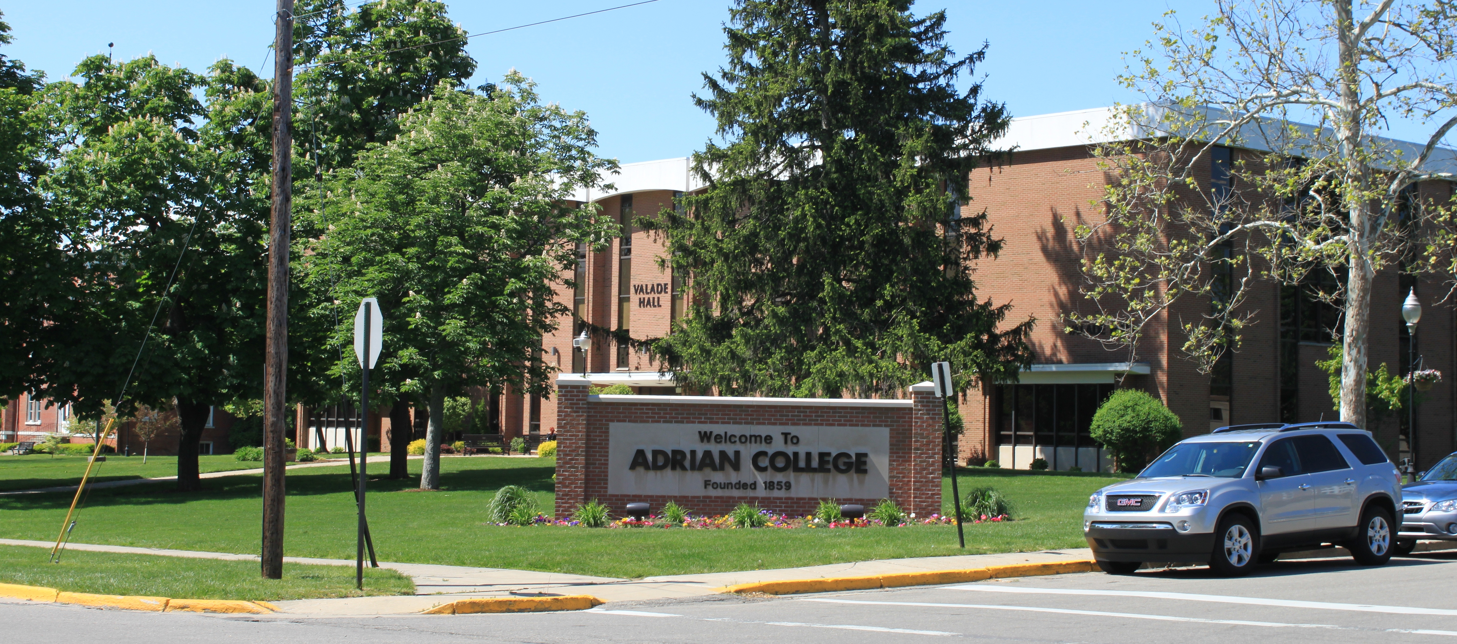 Valade Hall, Adrian College, Adrian Michigan